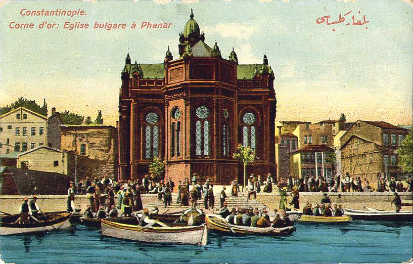 The Bulgarian St Stephen Church in Constantinople (now Istanbul).